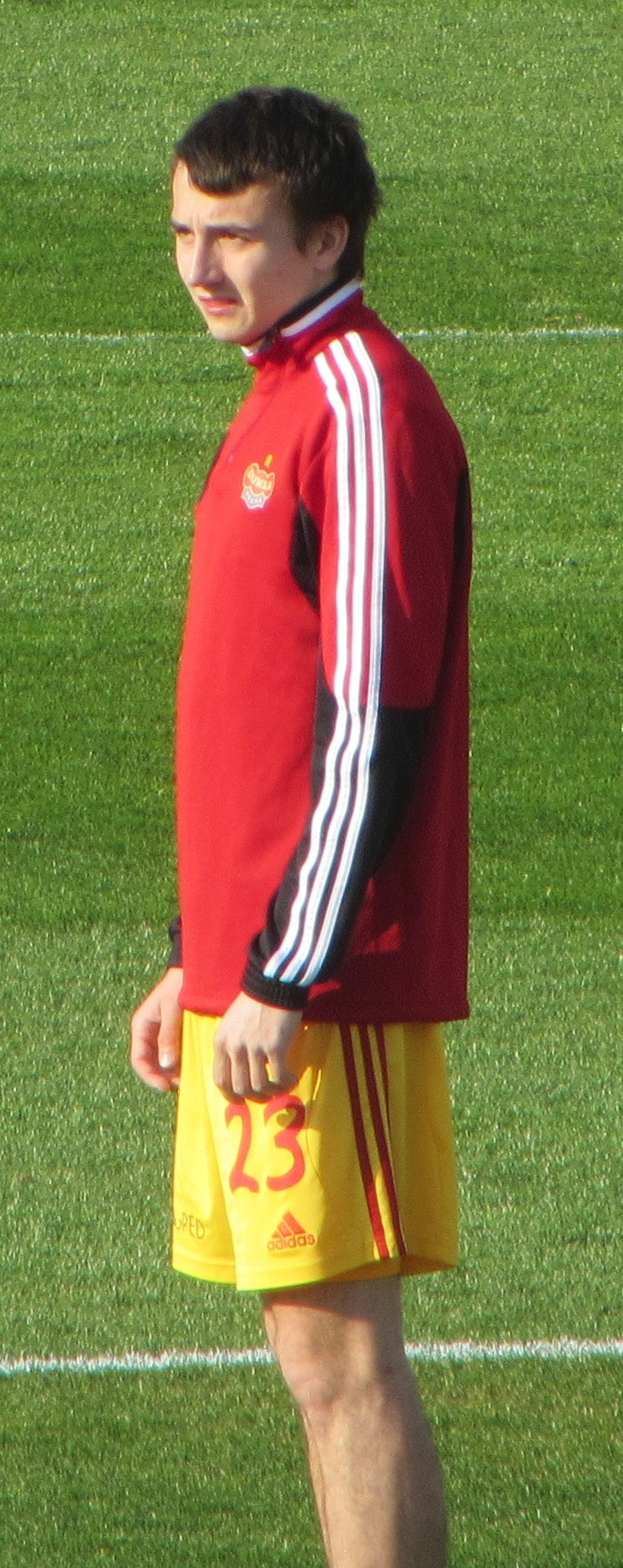 Róbert Kovaľ (FK Dukla Praha) before the match against Brno